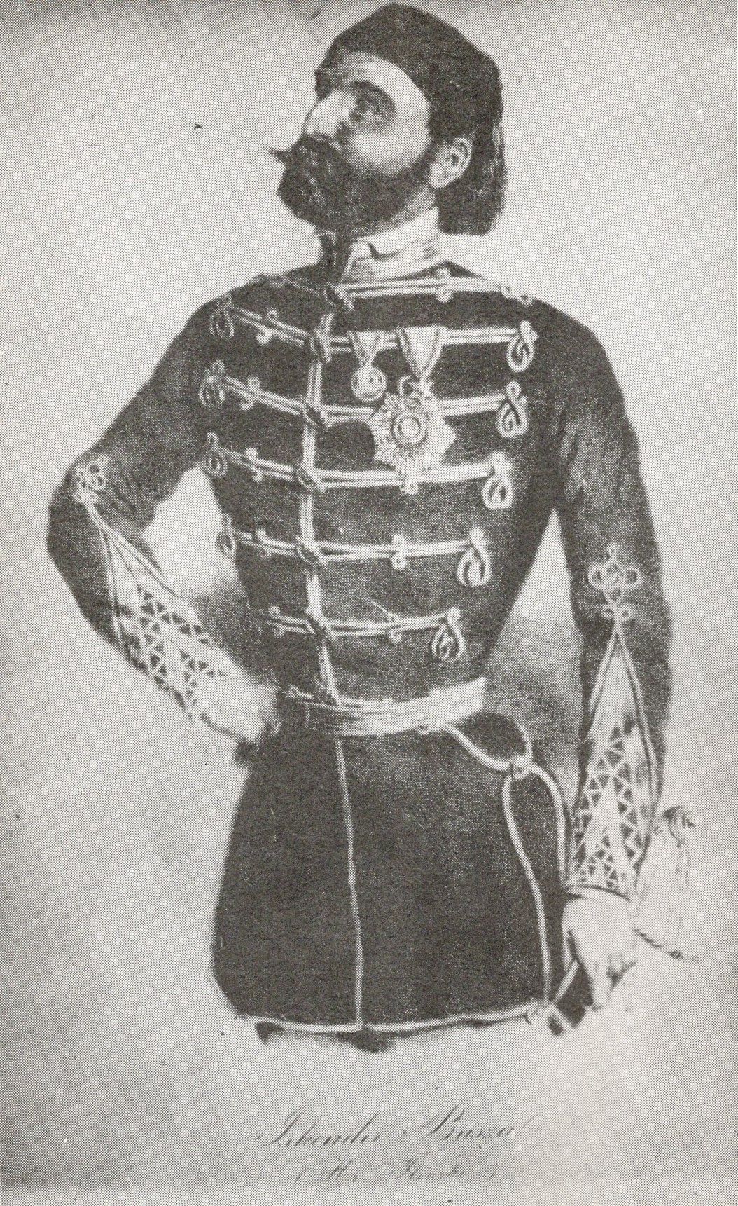 Antoni Iliński